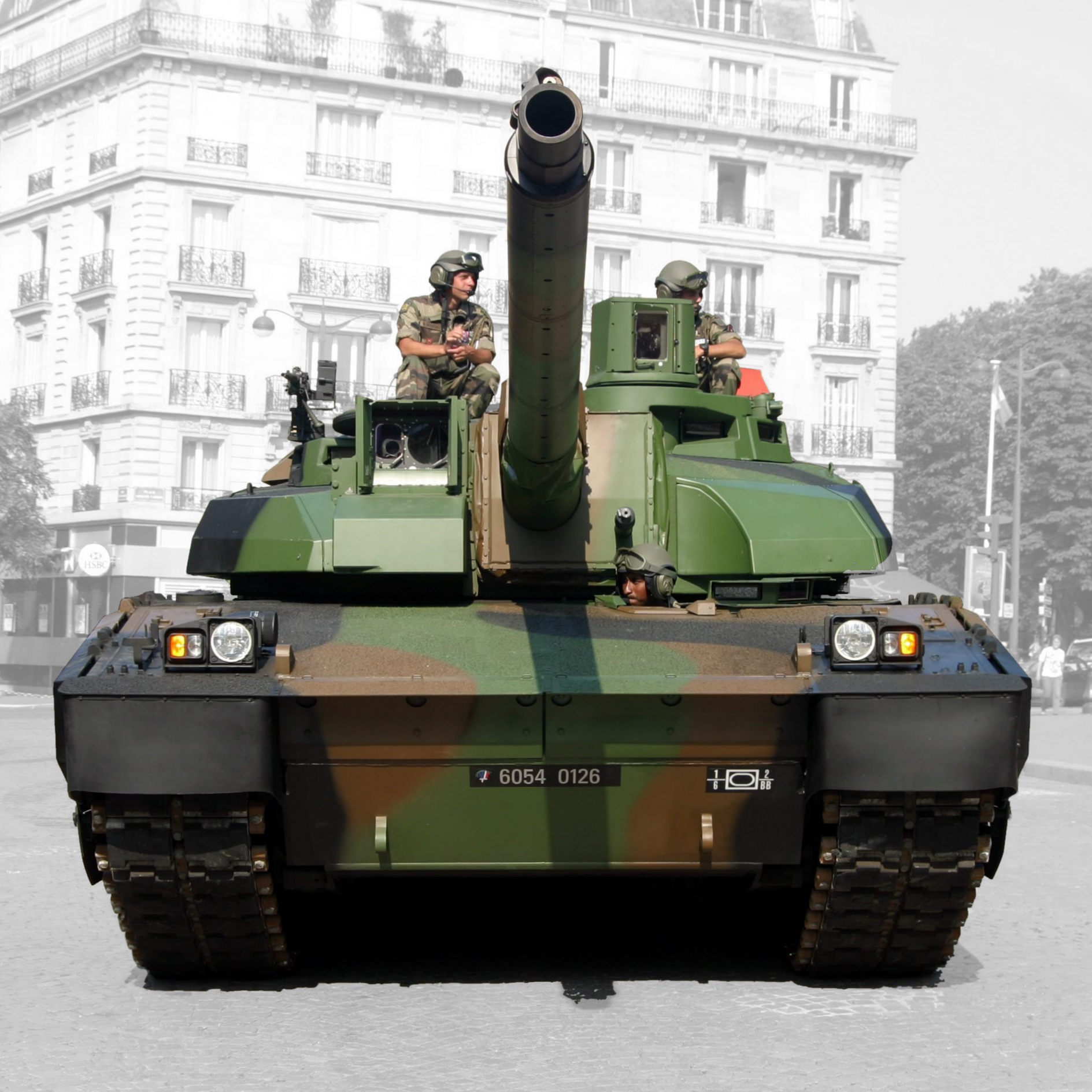 AMX-56 Leclerc in Paris streets on 14 July